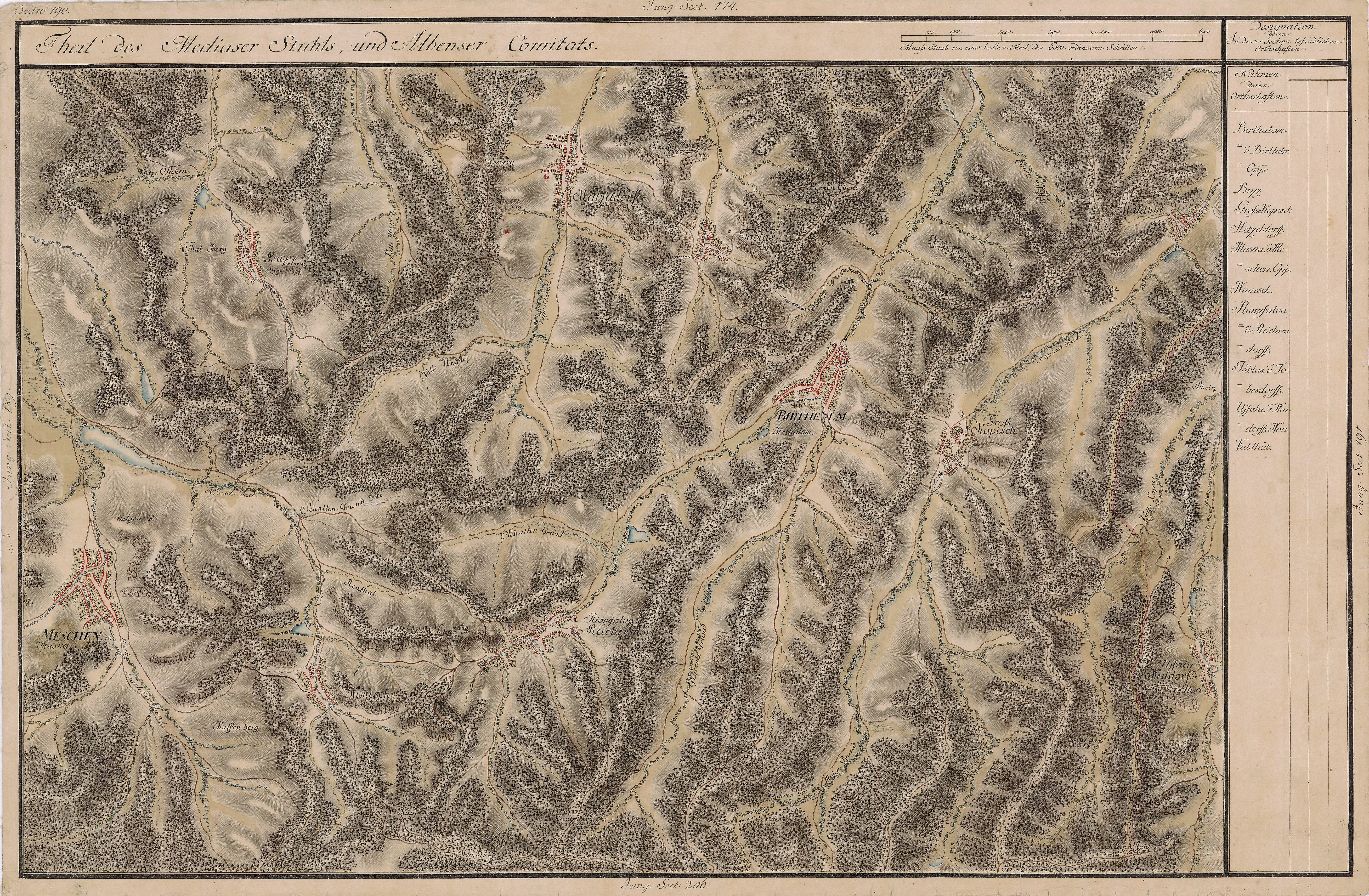 Grand Duchy of Transylvania, 1769-1773. Josephinische Landaufnahme pg.190